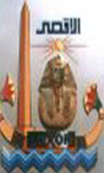 Emblem of the Luxor Governorate.